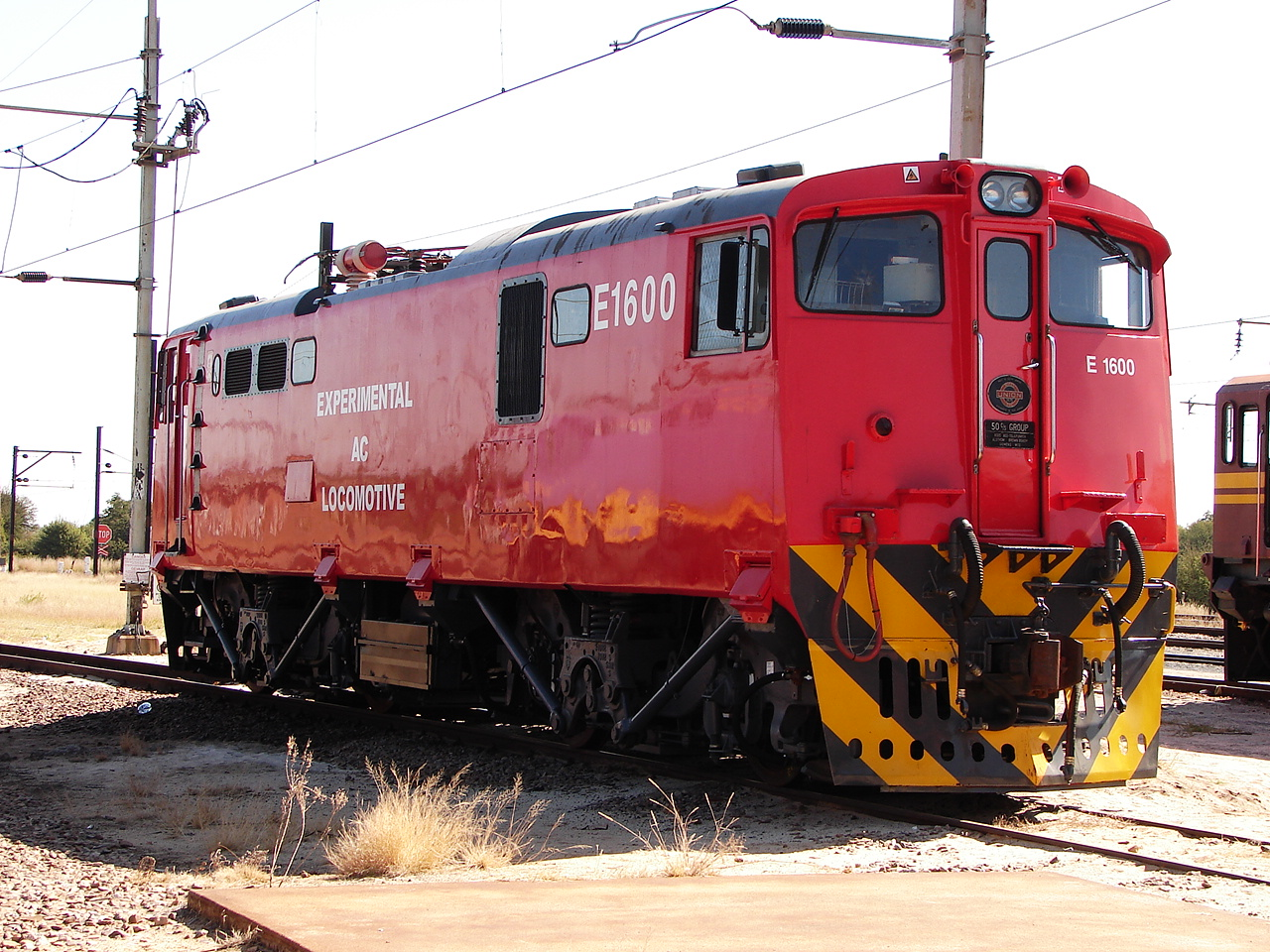 SAR Class Exp/AC E1600, right side Location: Pyramid South, Pretoria, Gauteng